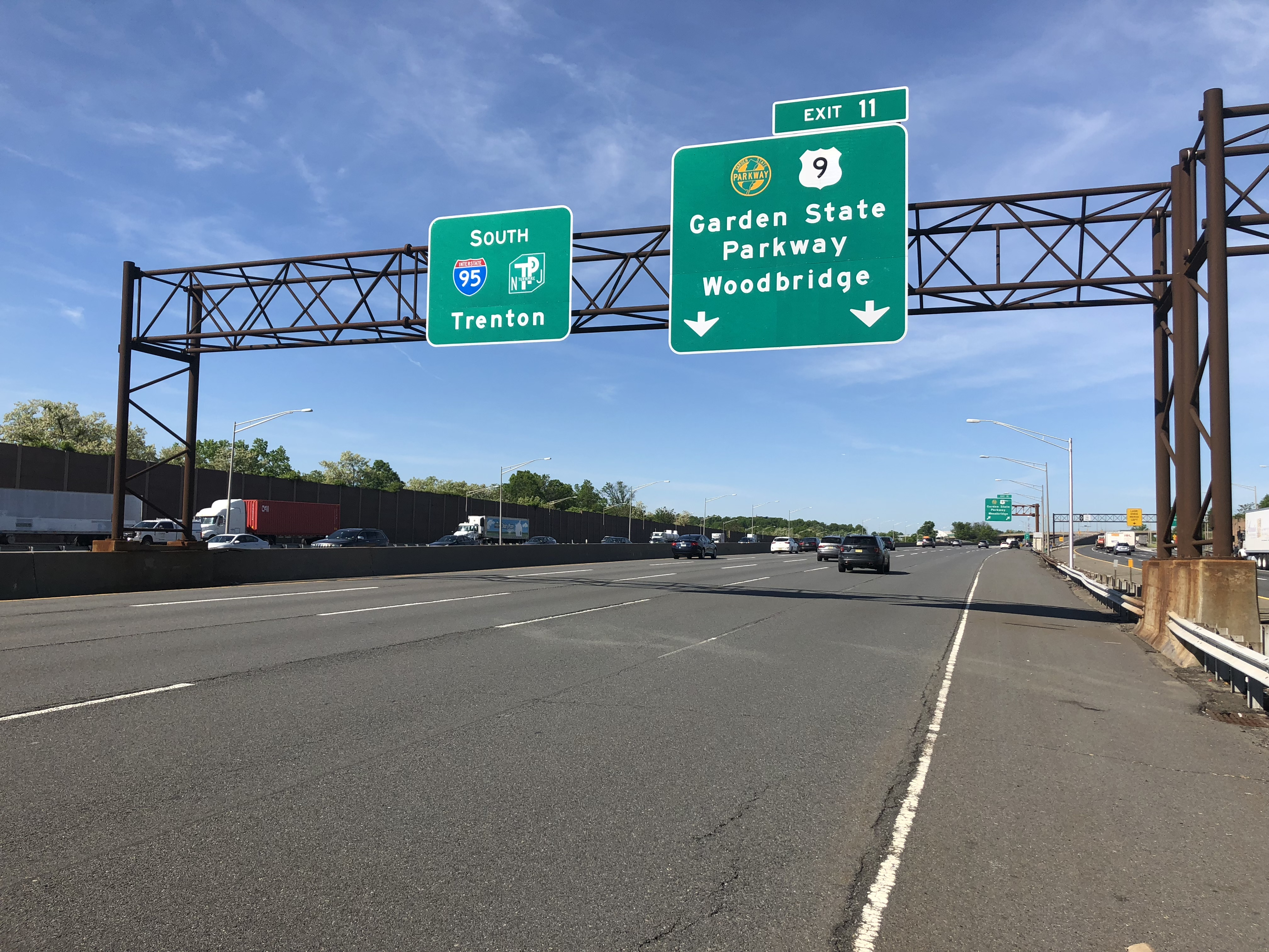 View south along Interstate 95 (New Jersey Turnpike) just north of Exit 11 (Garden State Parkway, U.S. Route 9, Woodbridge) in Woodbridge Township, Middlesex County, New Jersey